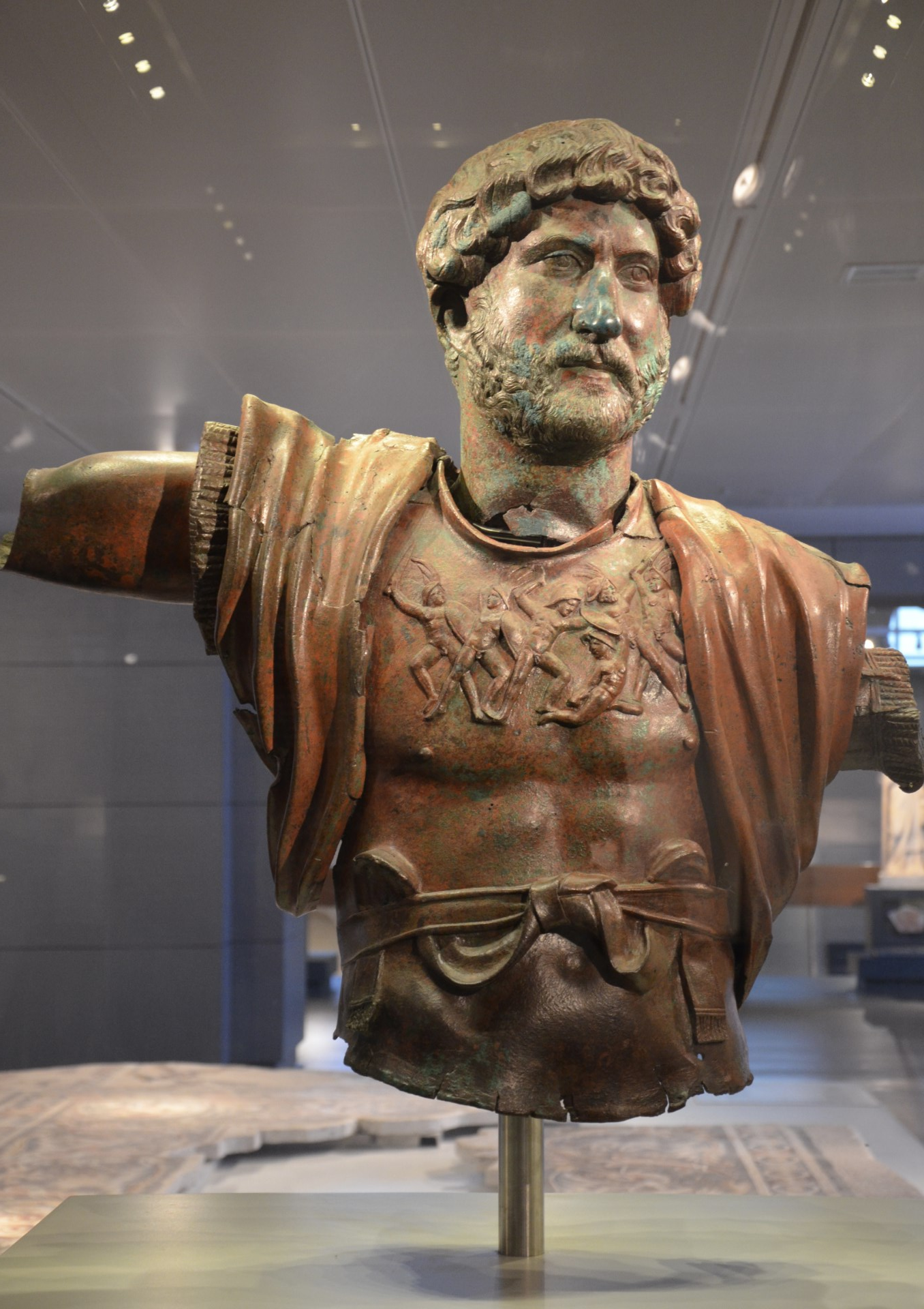 A statue of Hadrian, apparently used for the ritual worship of the emperor, was discovered in a camp of the Roman army. One of the few extant bronze sculptures of an emperor from the Roman Period, it portrays Hadrian in the typical pose of the supreme military commander greeting his troops. His muscle cuirass is decorated with an enigmatic depiction of archaic warriors. Probably cast in an imperial workshop, the statue features the standardized likeness of the emperor, down to the unique shape of his earlobe, a symptom of the heart disease that eventually caused his death. Publications: The Israel Museum, Publisher: Harry N. Abrams, Inc., 2005 Zalmona, Yigal, ed., The Israel Museum at 40: Masterworks of Beauty and Sanctity, The Israel Museum, Jerusalem, 2005 Beauty and Sanctity: the Israel Museum at 40. A Series of Exhibitions Celebrating the 40th Anniversary of the Israel Museum, Jerusalem, 2006